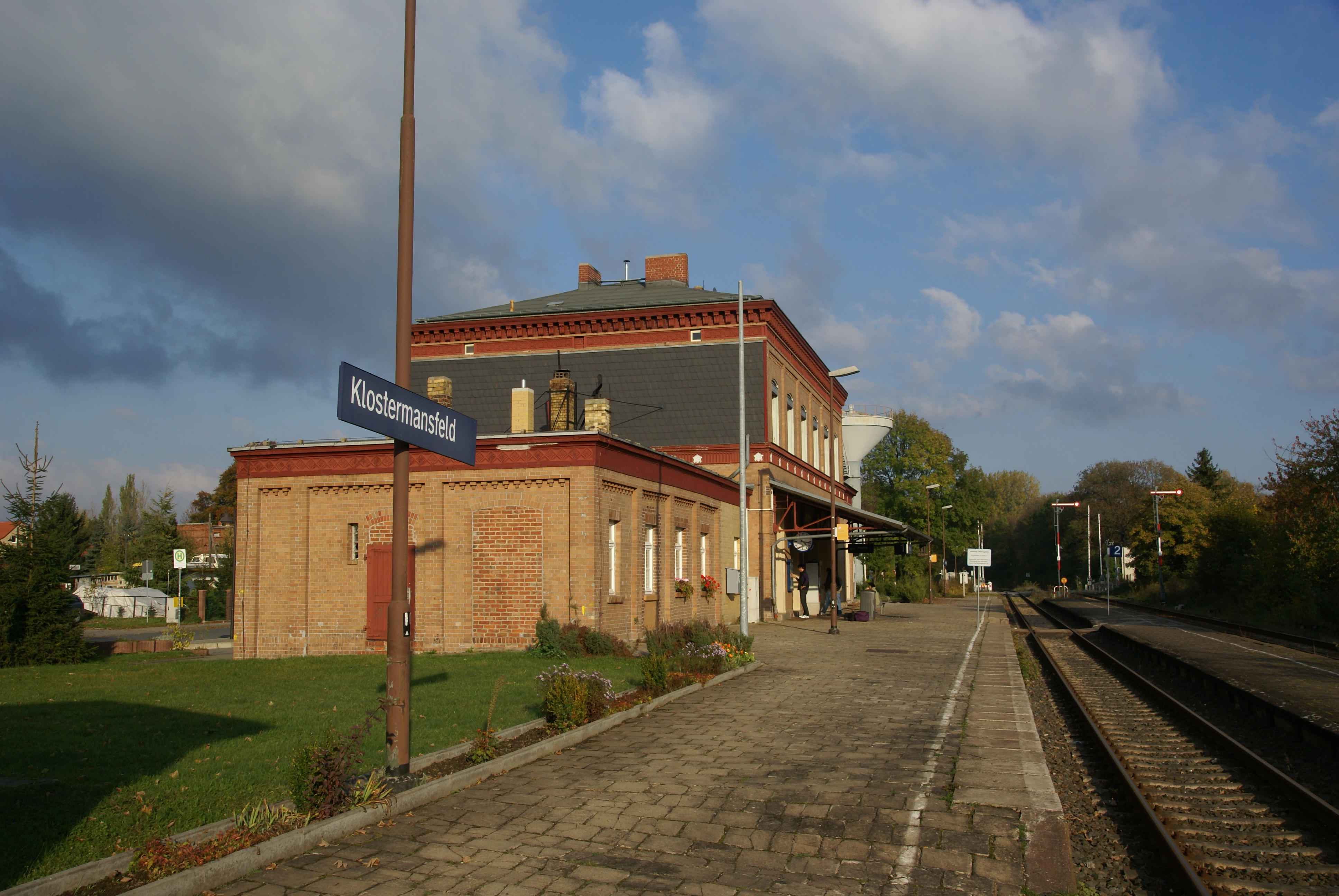 the train station of Klostermansfeld in the german Mansfeld-Südharz rural district